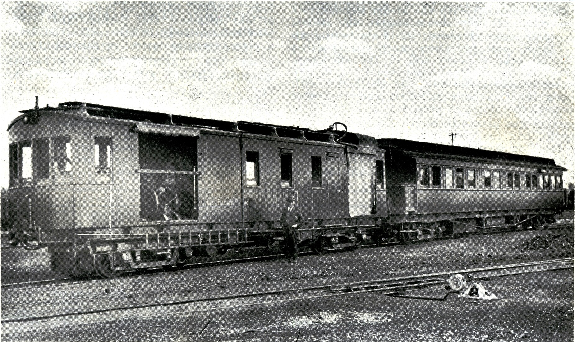 South African experimental gas-electric locomotive no. 1 in its final form, with a passenger compartment at the rear end and hauling a balcony coach